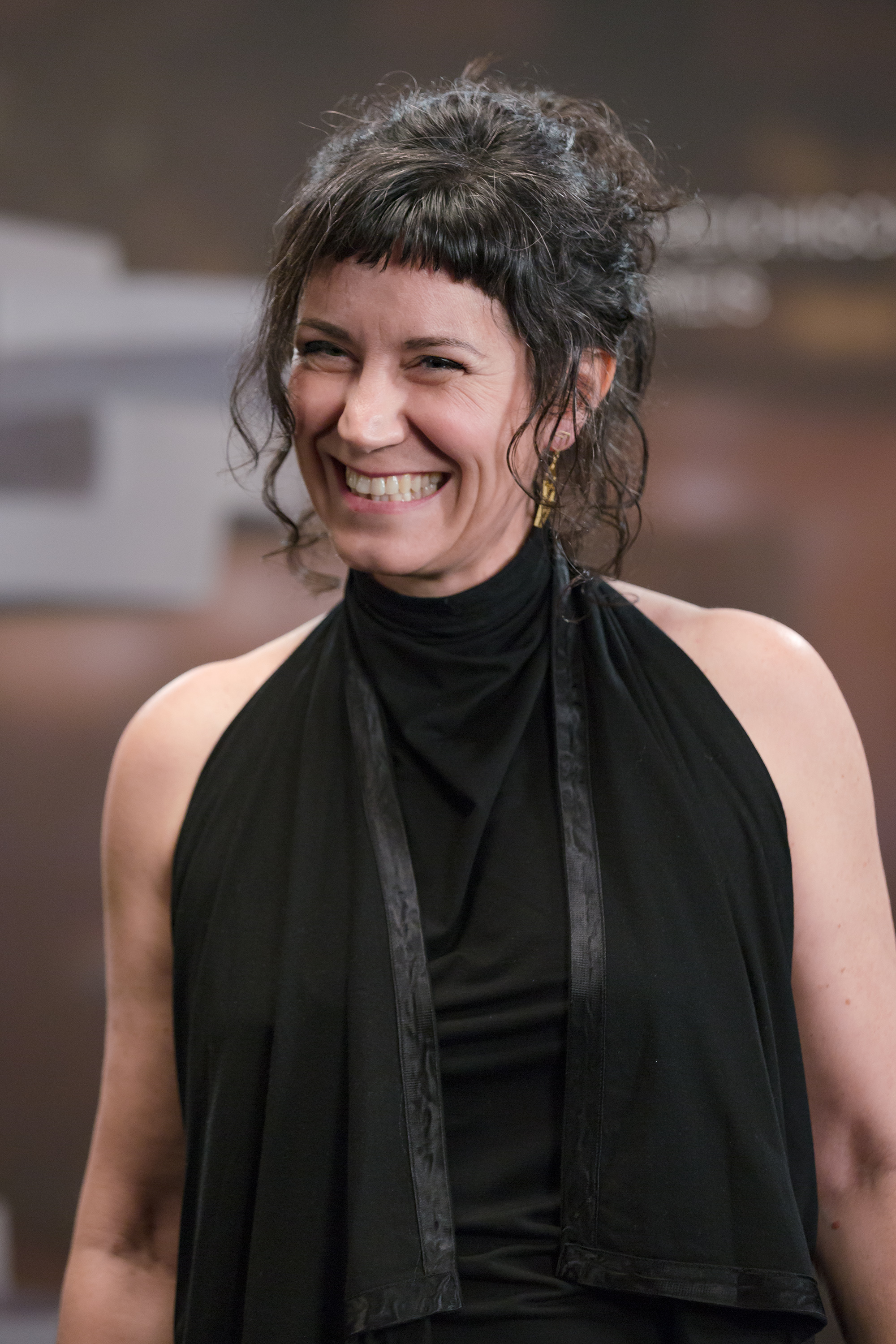 Christine Ludwig, costume designer of Thank You for Bombing, at the Austrian Film Awards 2017 (Rathaus, Vienna,Austria).